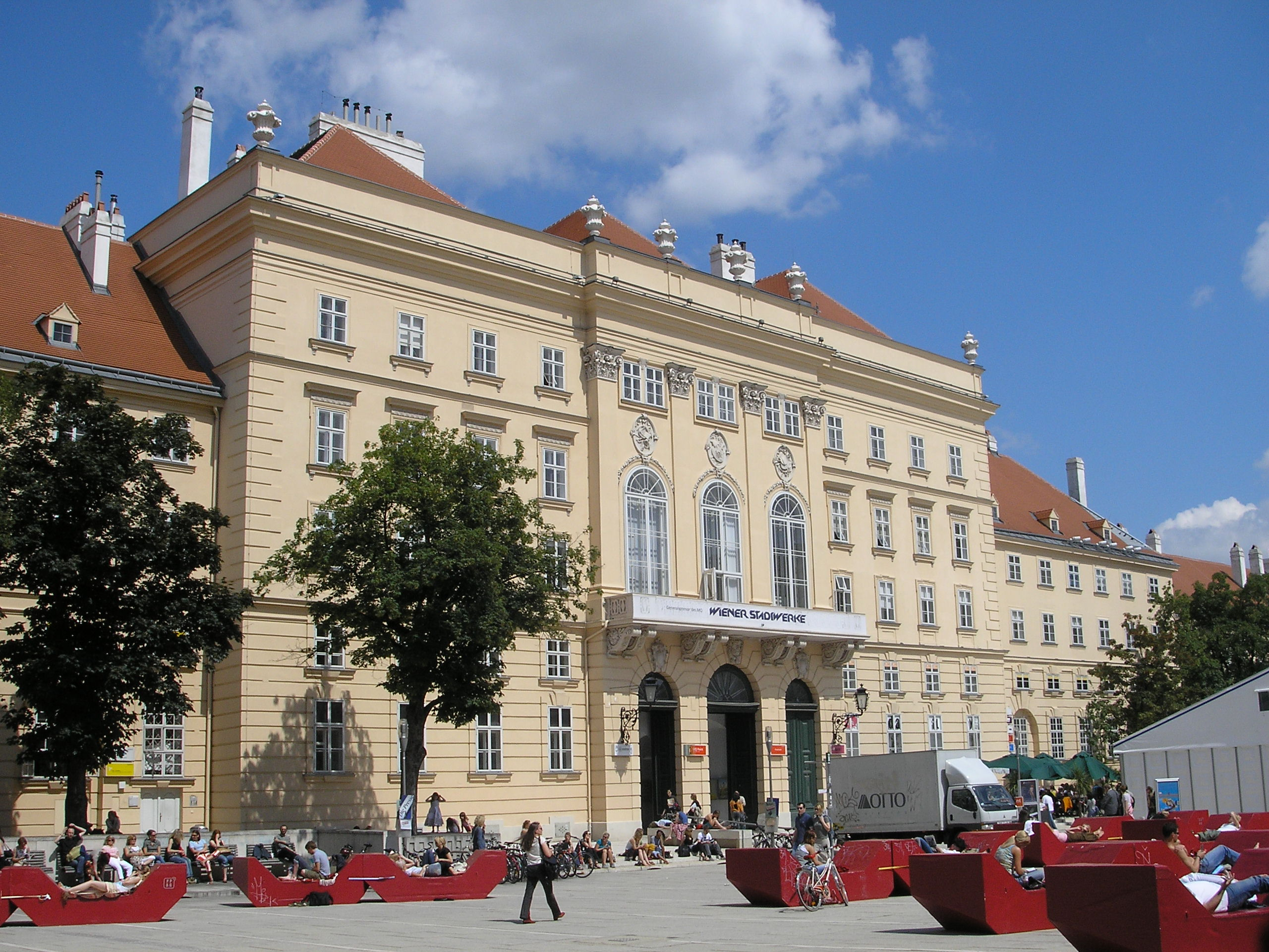 Austria, Vienna, Museumsquartier